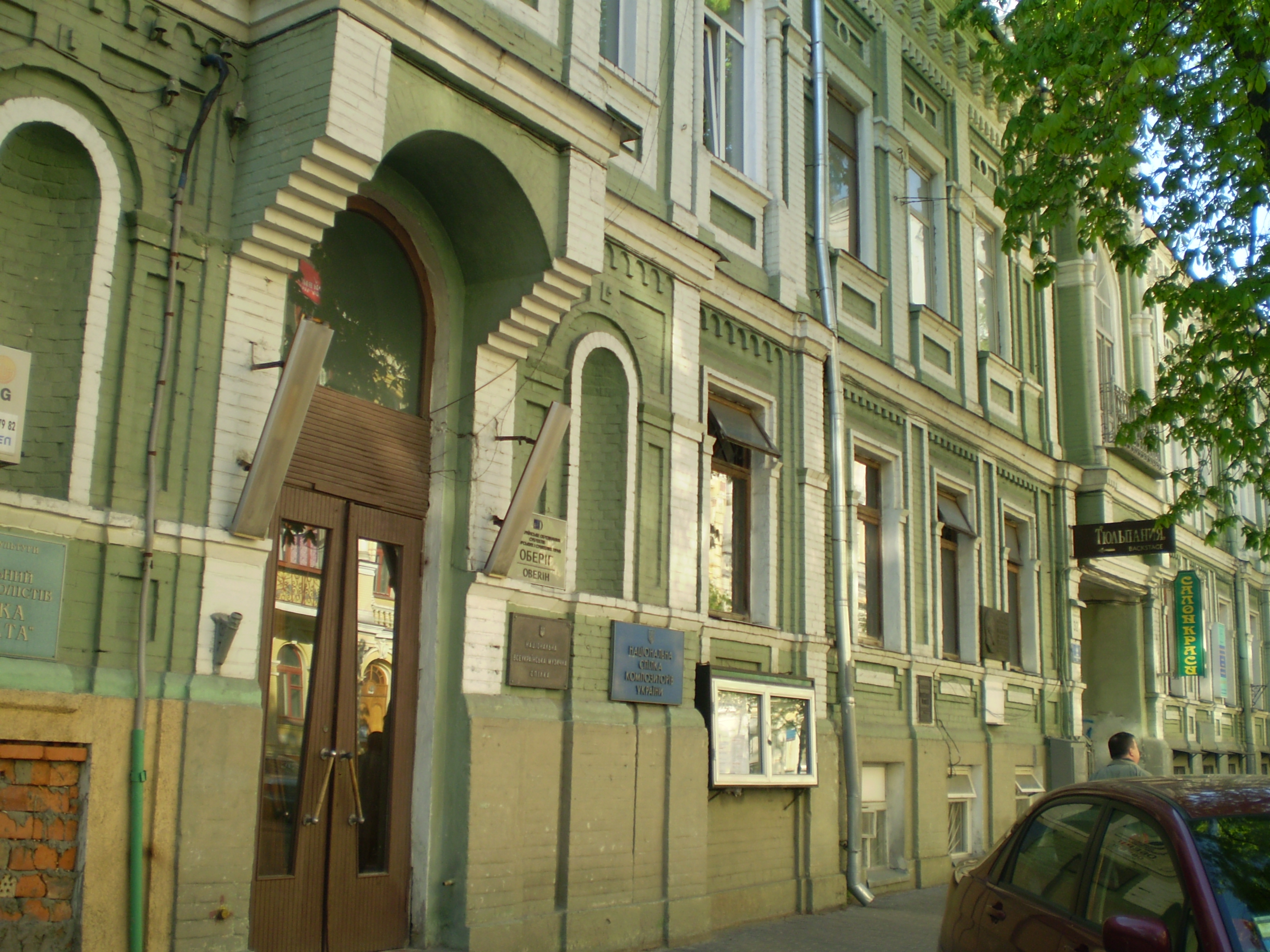 Ukrainian Composer's union